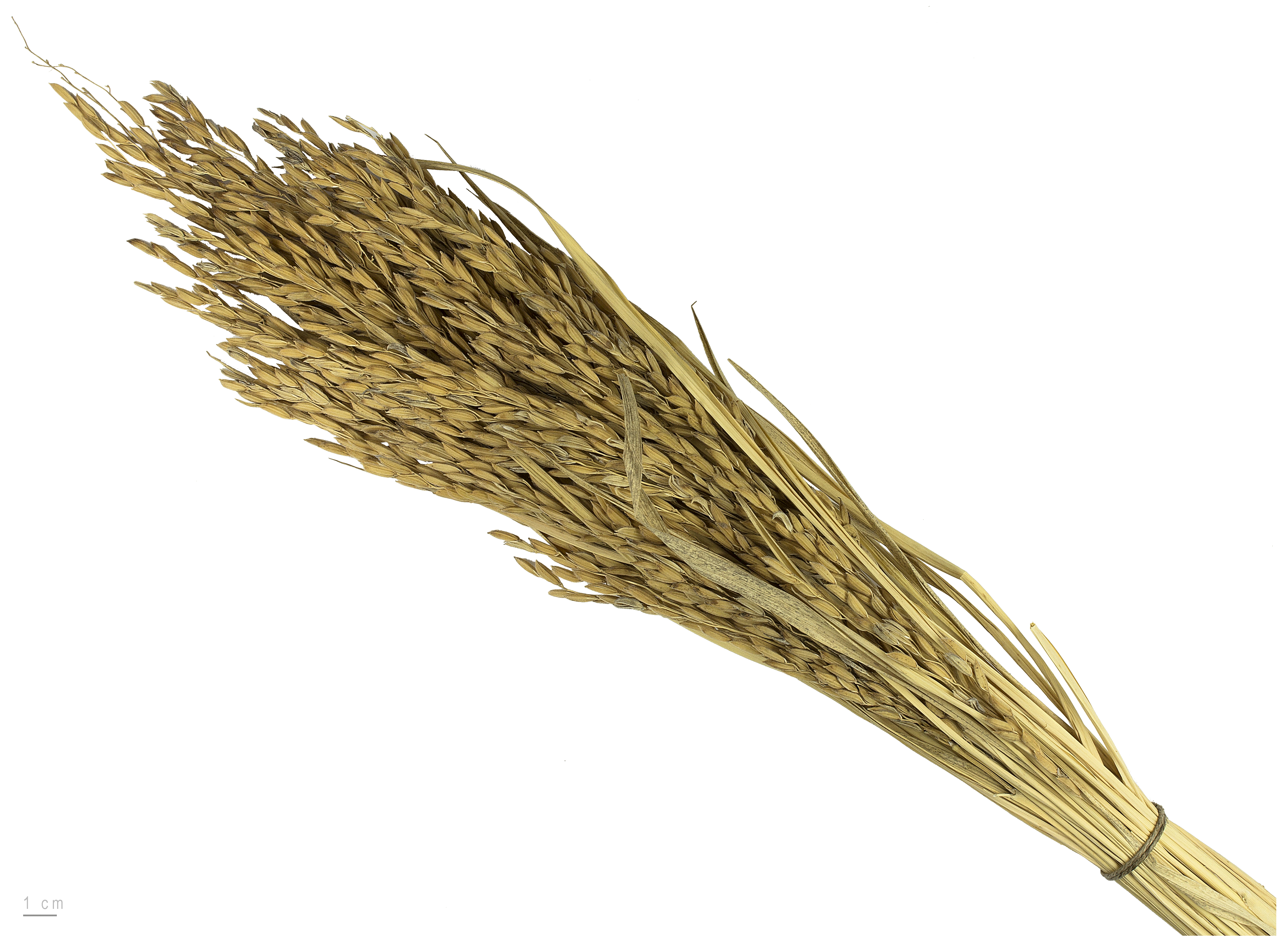 Oryza sativa, Asian rice, seeds